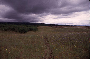 The Willamette Floodplain, the largest unplowed native grassland in the North Pacific Border biophysiographic province